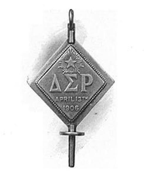 Cap and Gown 1915 University of Chicago yearbook